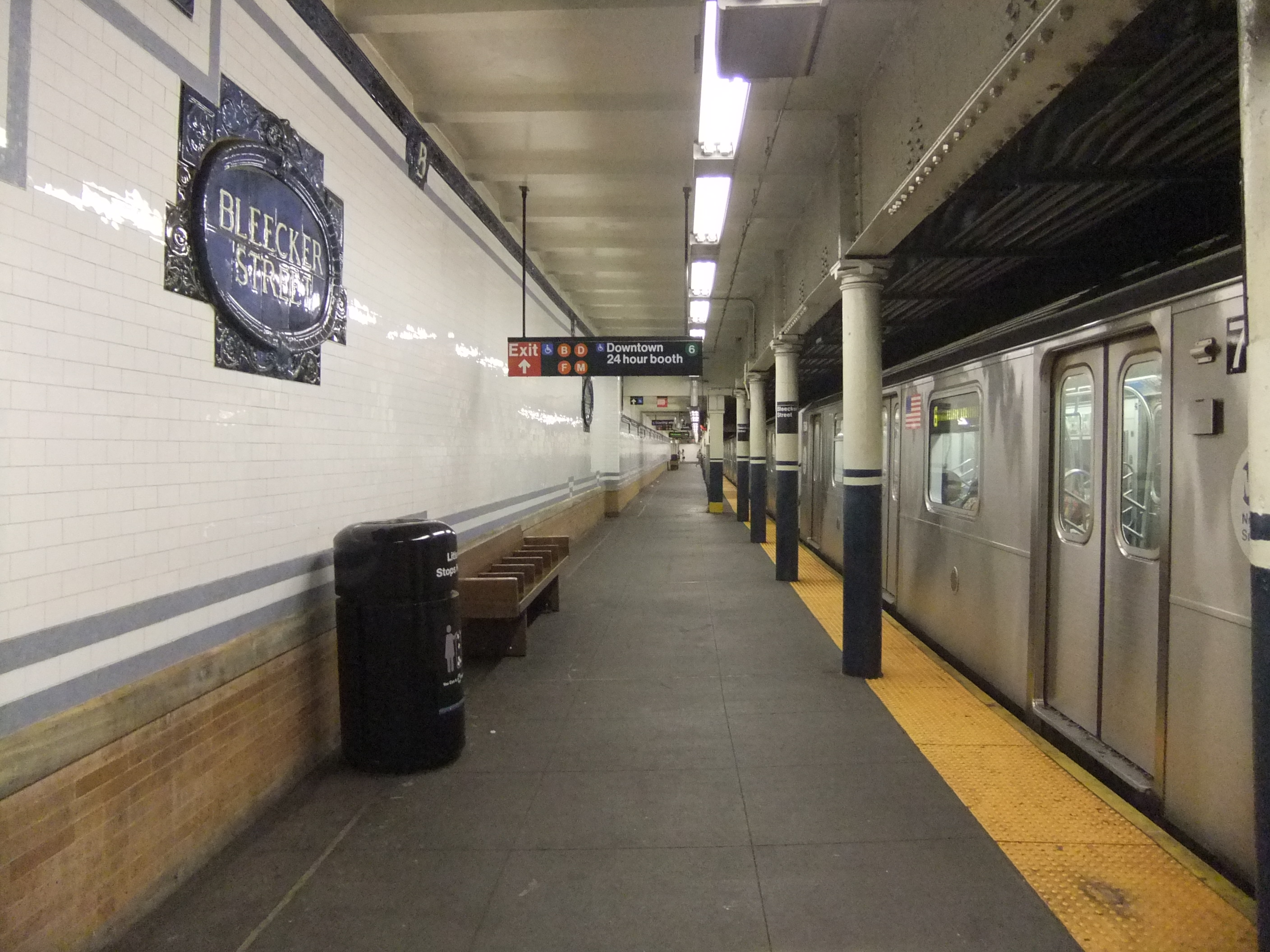 Uptown Lex Ave platform at Bleecker Street